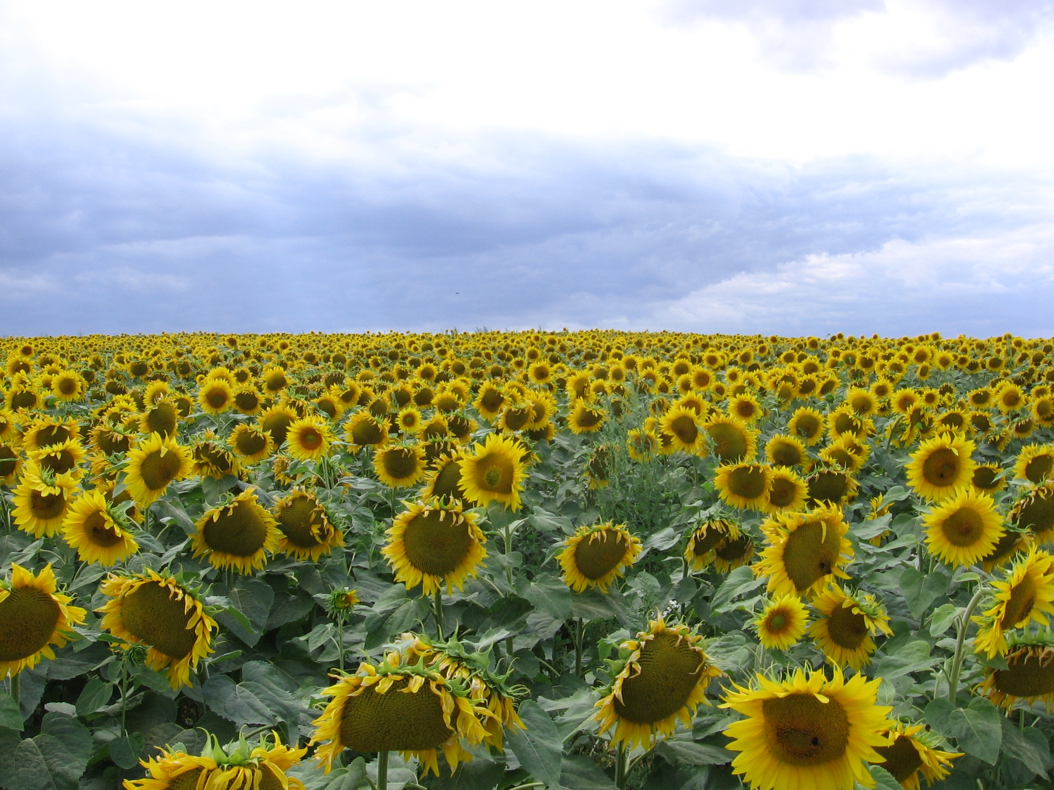 Helianthus field in Poland, near Sobótka